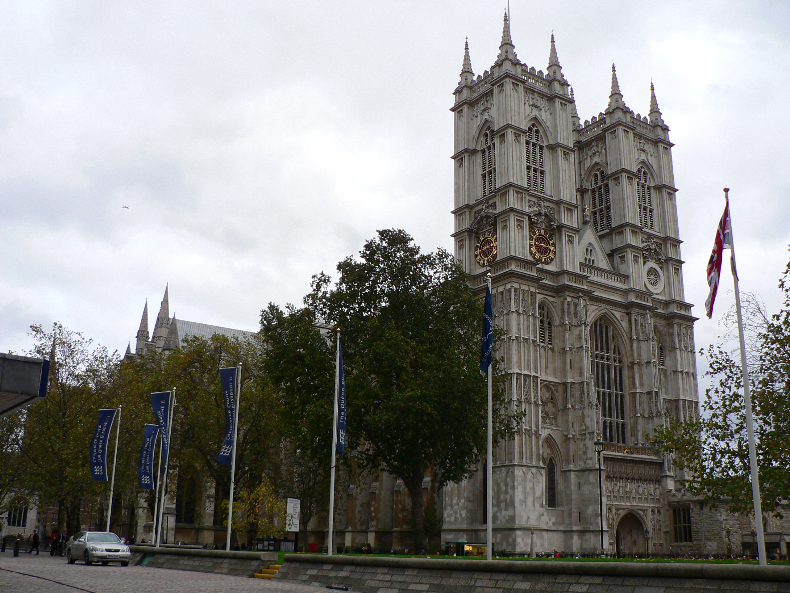 Westminster Abbey, London, England.